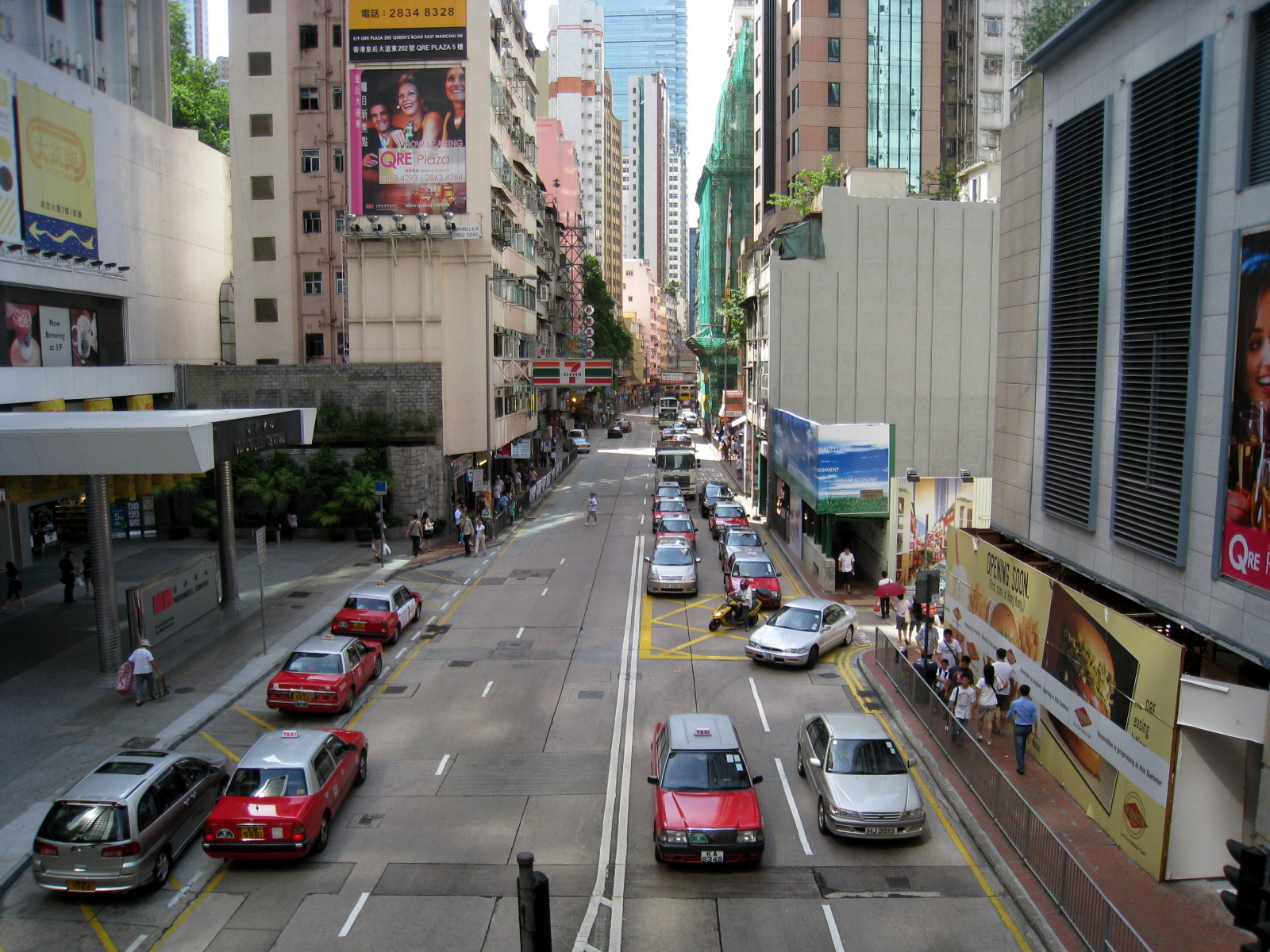 Queen's Road East Wan Chai Section 皇后大道東灣仔段